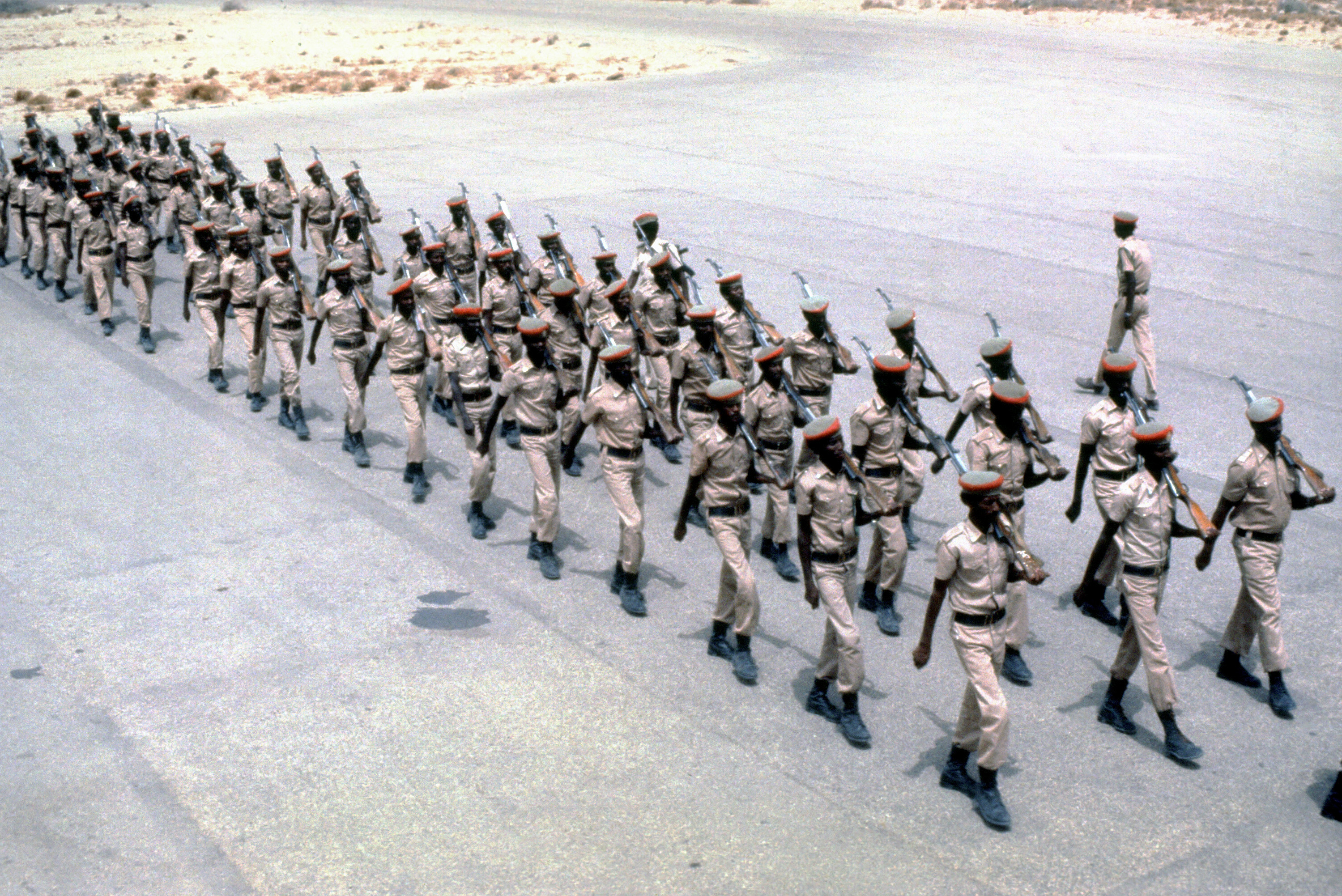 Somali troops pass in review during Exercise EASTERN WIND '83 ceremony. EASTERN WIND is the amphibious landing phase of Exercise BRIGHT STAR '83.